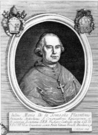 Portrait of cardinal Giulio Maria della Somaglia (1744-1830)